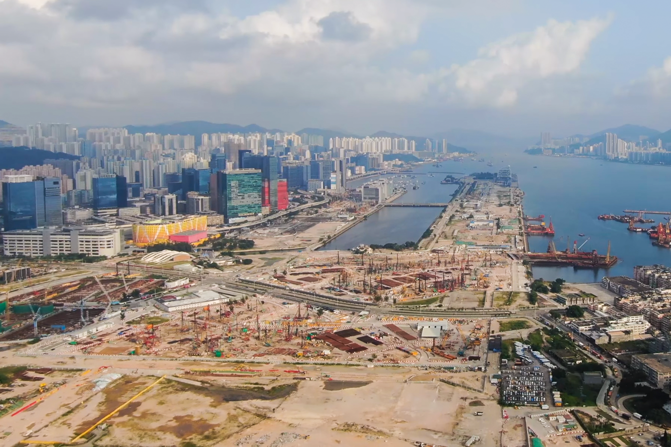 Drone footage from City University of Hong Kong to Kai Tak